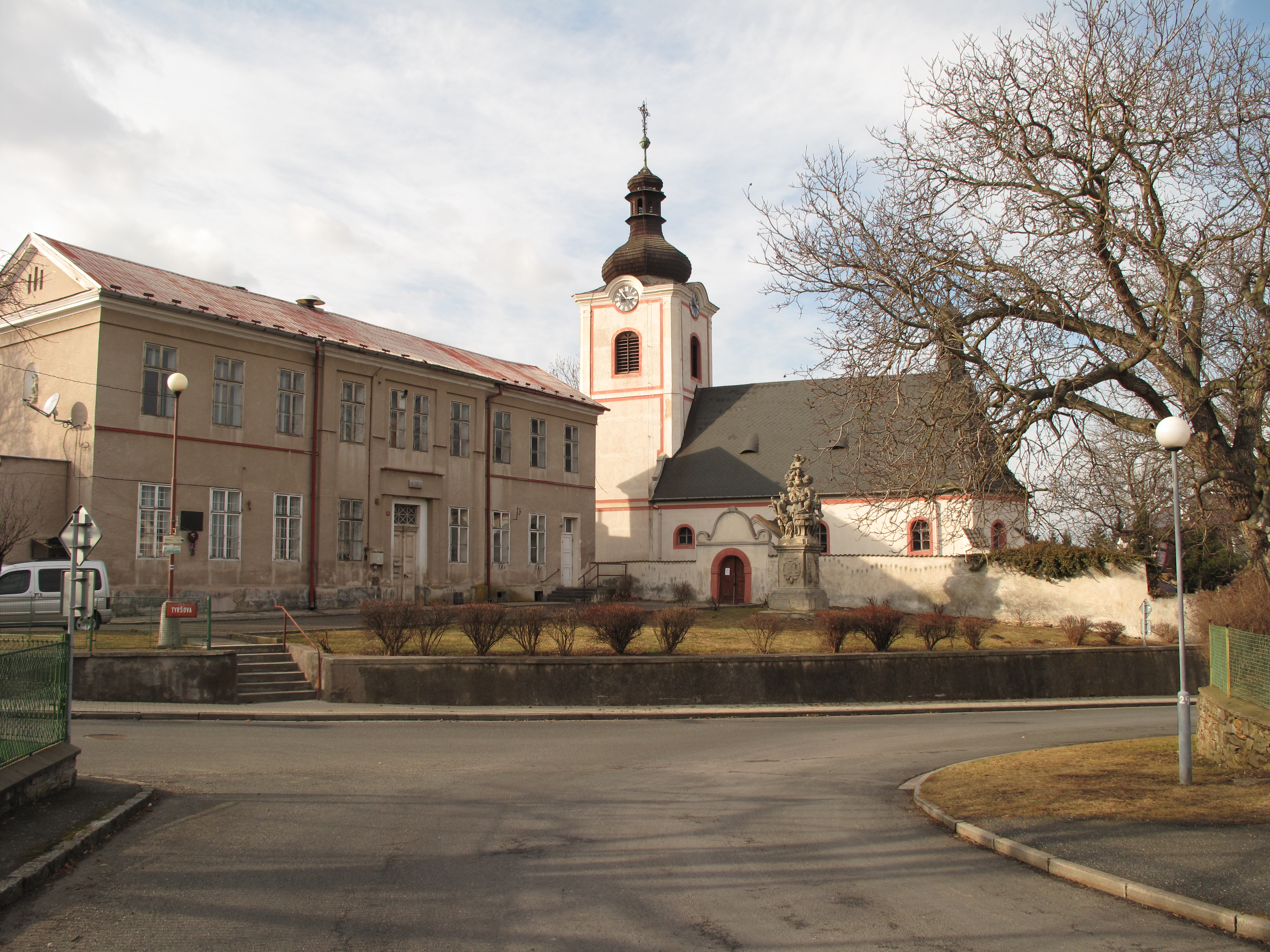 Church of St. Wenceslaus in Ratboř village, Kolín District, Czech Republic.